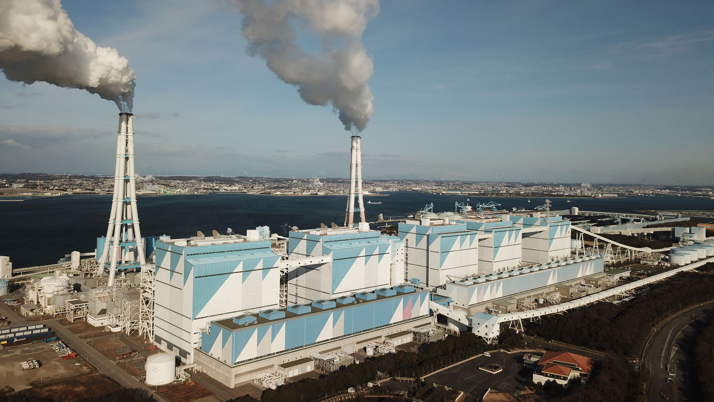 CHUBU electric power company's HEKINAN thermal power plant (HEKINAN-city, AICHI-pref., JAPAN)